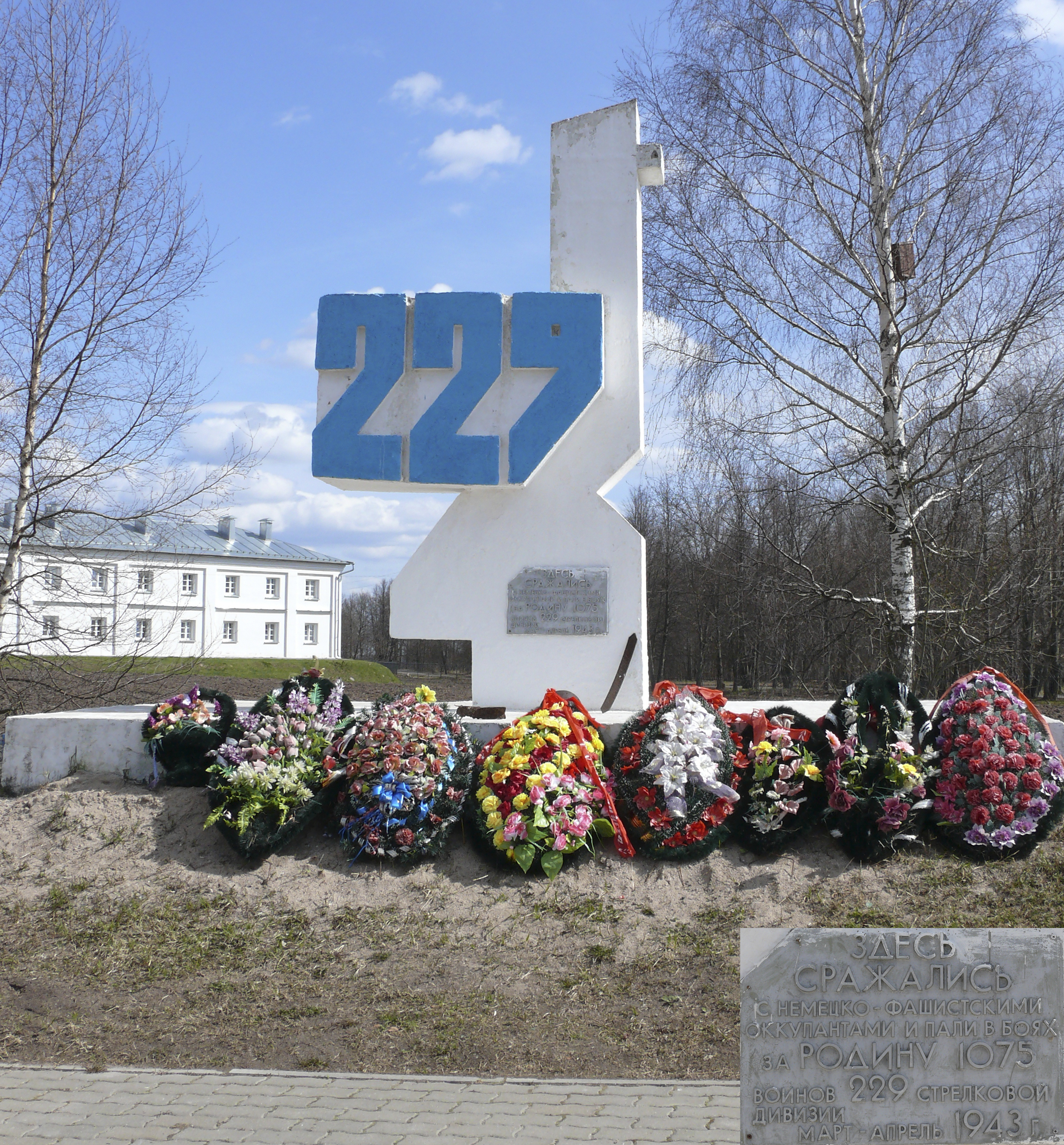 The memorial of the 229th division in Khutyn village. Novgorodsky district, Novgorod oblast, Russia